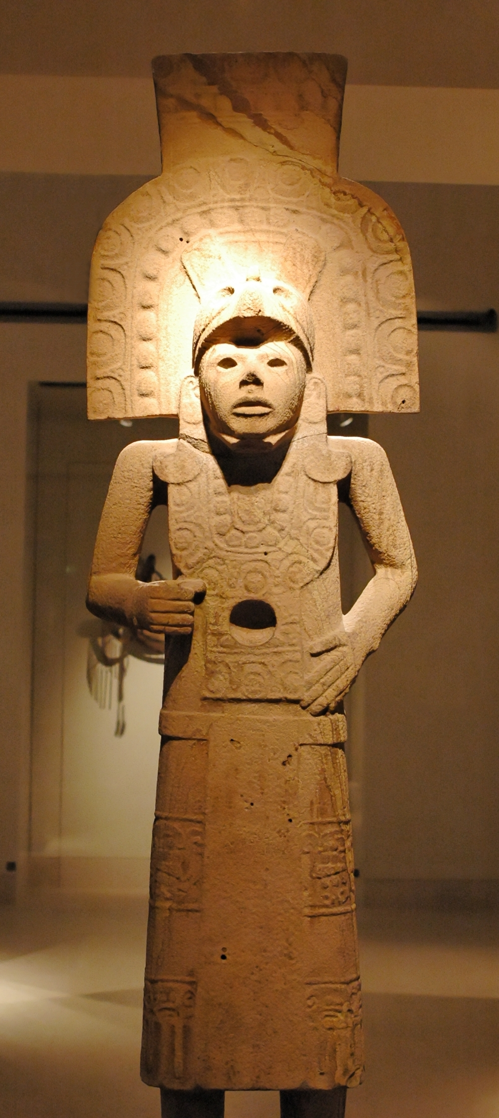 Huastec statue of a man wearing a decorated headdress, a necklace, and a skirt.